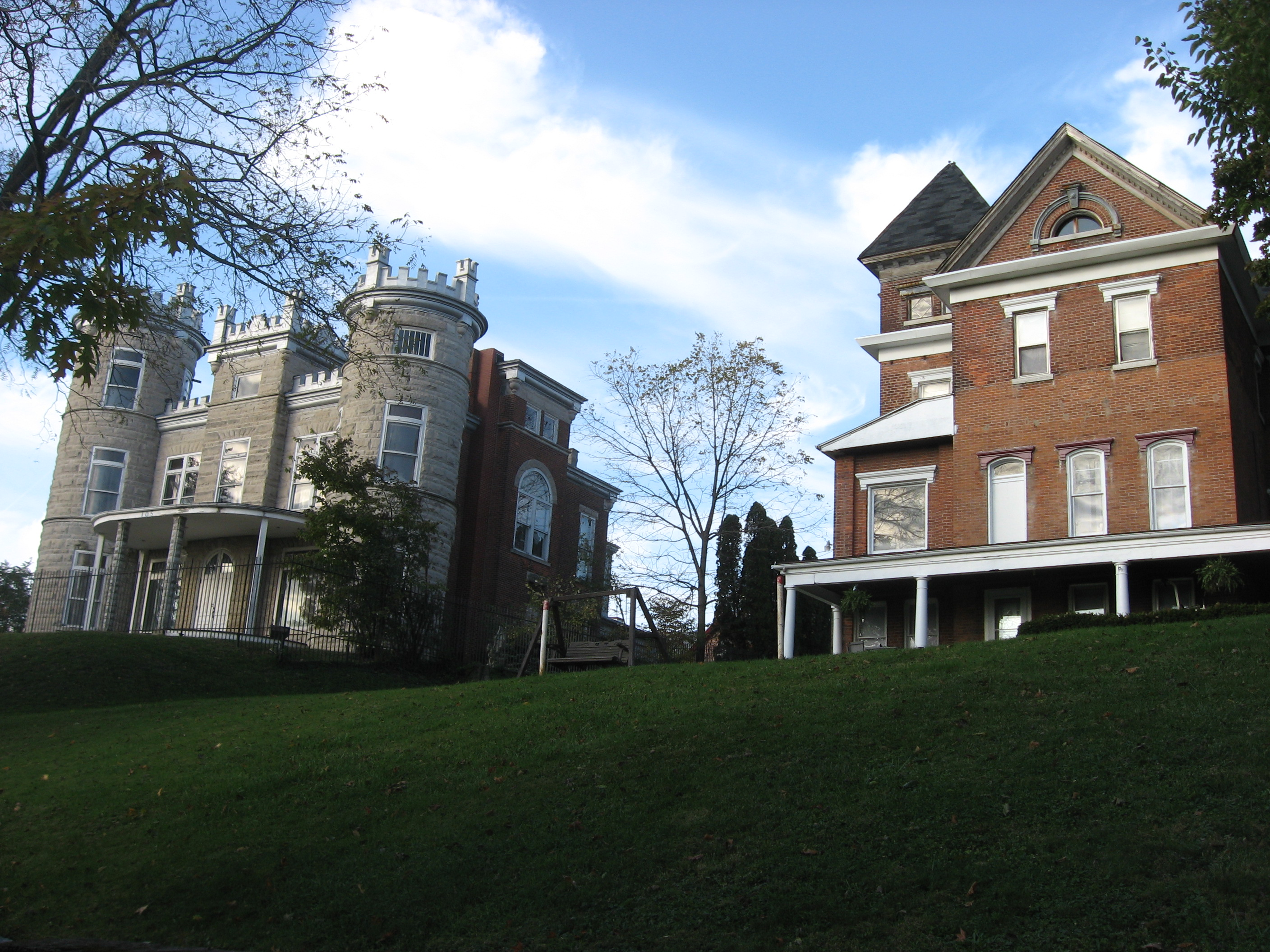 Houses on the western side of the 100 block of N. Walnut Avenue in Sidney, Ohio, United States. The houses are part of the Sidney Walnut Avenue Historic District, a historic district that is listed on the National Register of Historic Places.